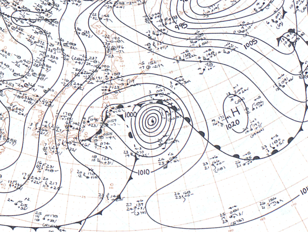 Surface Weather Analysis of Typhoon Ophelia on December 5, 1960.